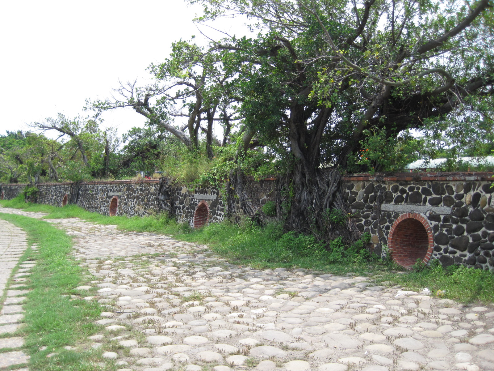 Sihcao Foretress